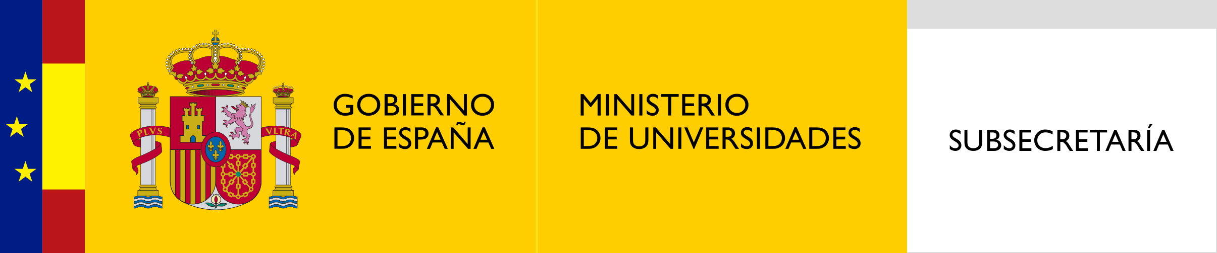 Logo of the Undersecretariat of the Ministry of Universities of Spain.